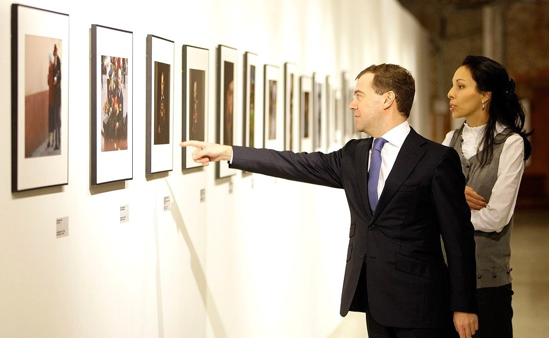 Dmitry Medvedev with director of Winzavod Sofia Trotsenko at the Best of Russia 2009 photo exhibition at the Winzavod Moscow Contemporary Art Centre.